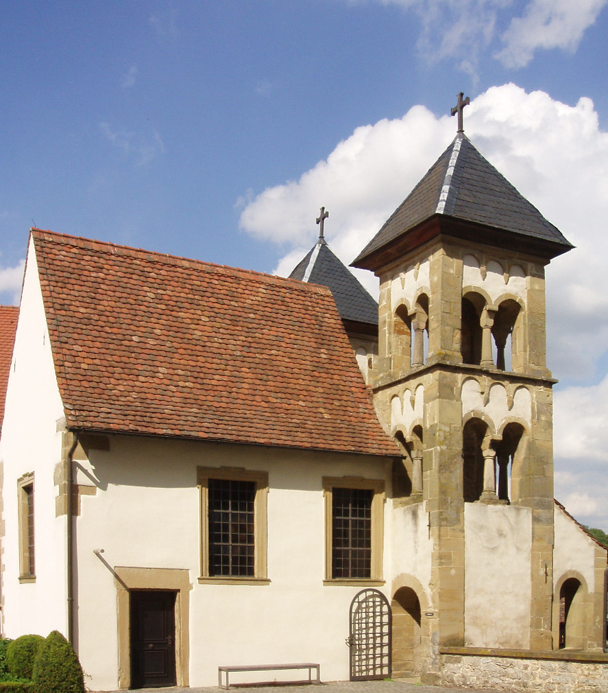 Comburg